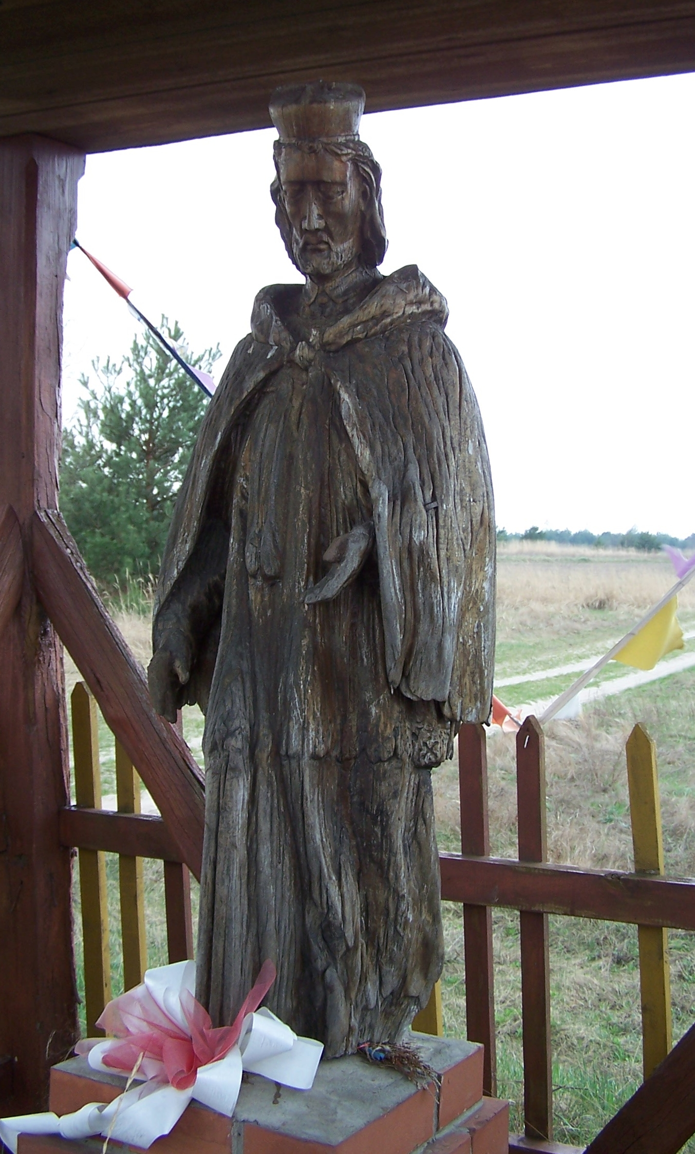 Wooden statue of Saint John Nepomucene in Kludzie near Solec nad Wisłą (PL)